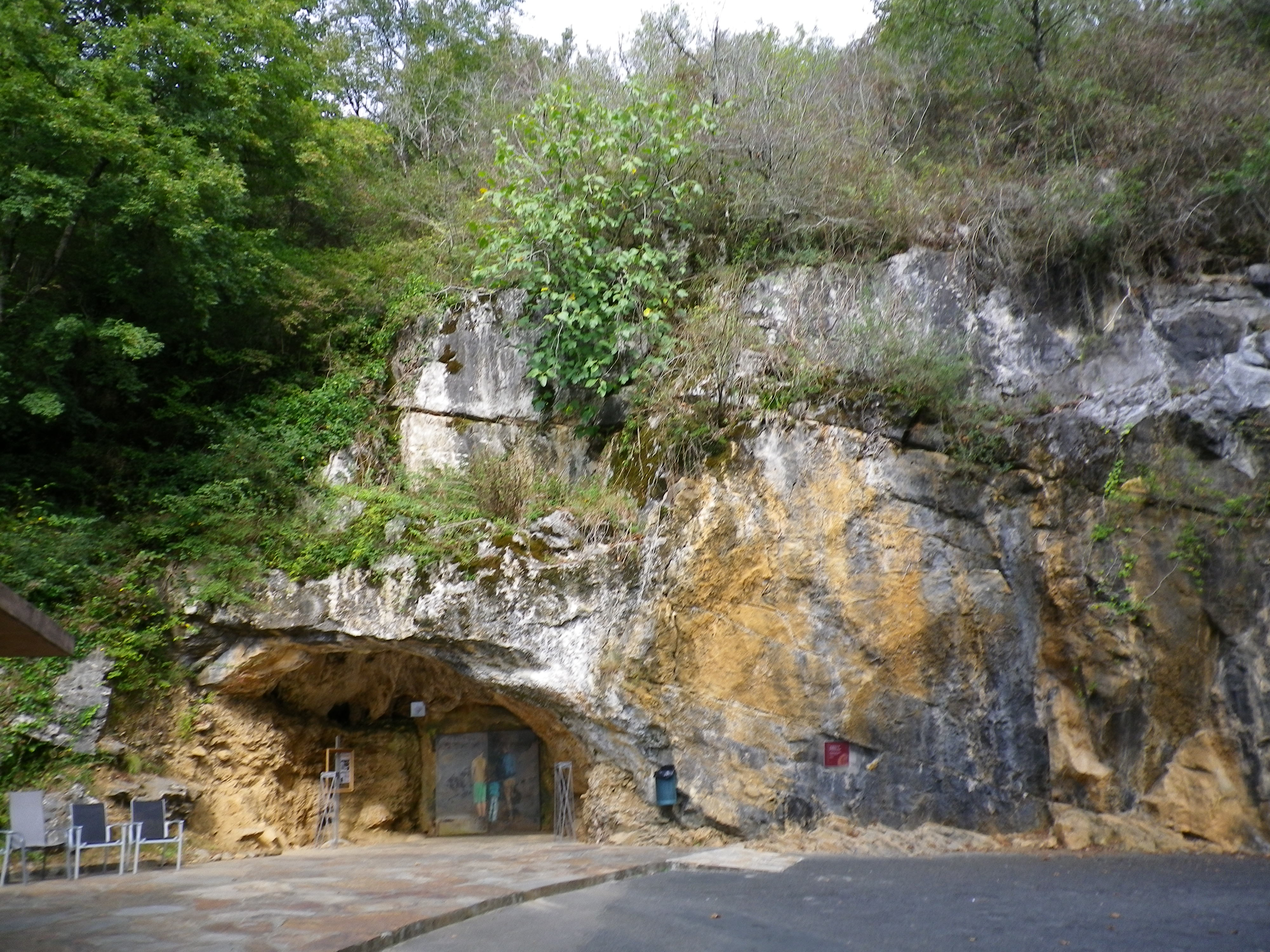 The entry of the cave of Isturitz